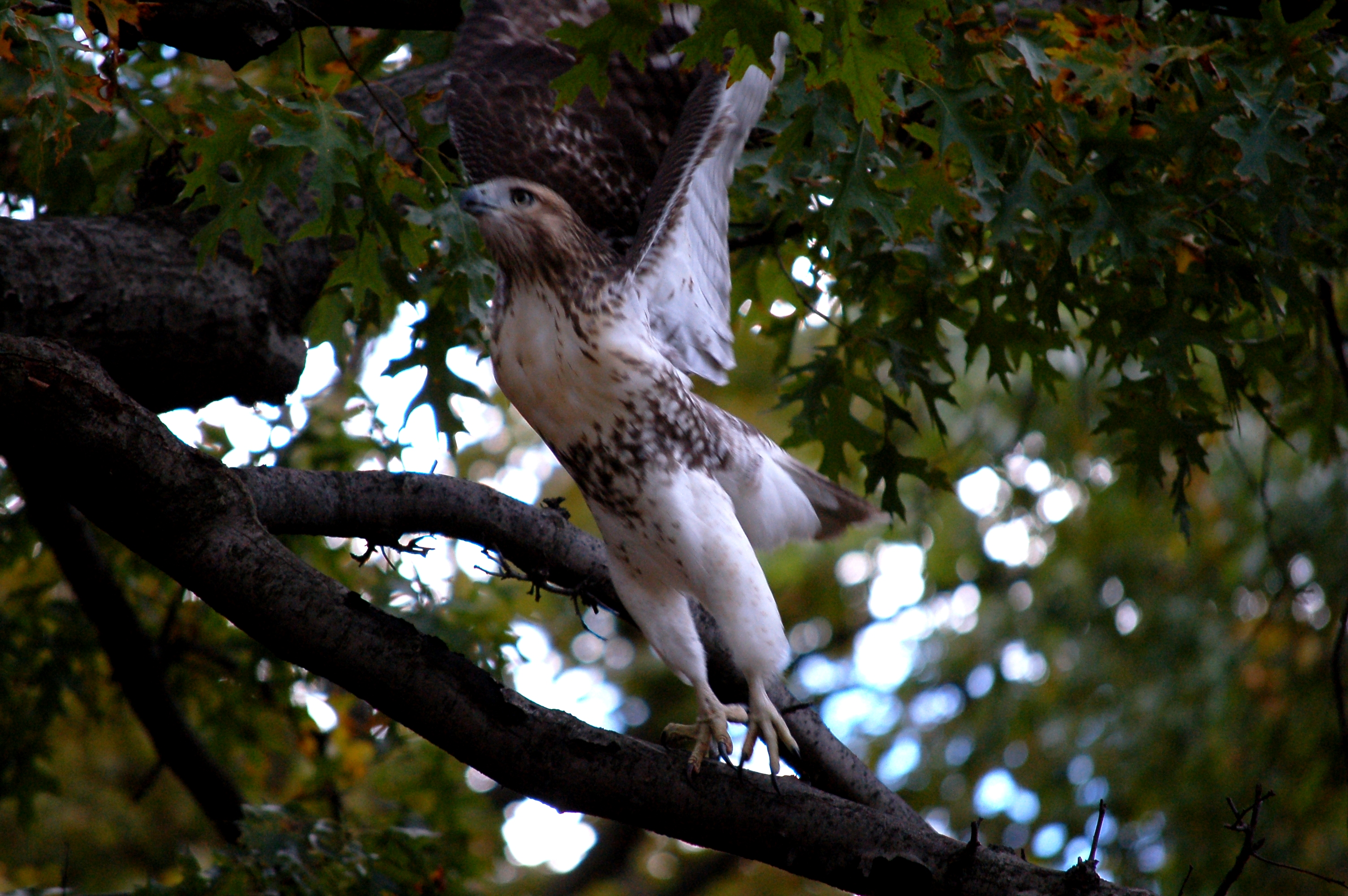 Photo by Philip N. Cohen, uploaded by the author, from